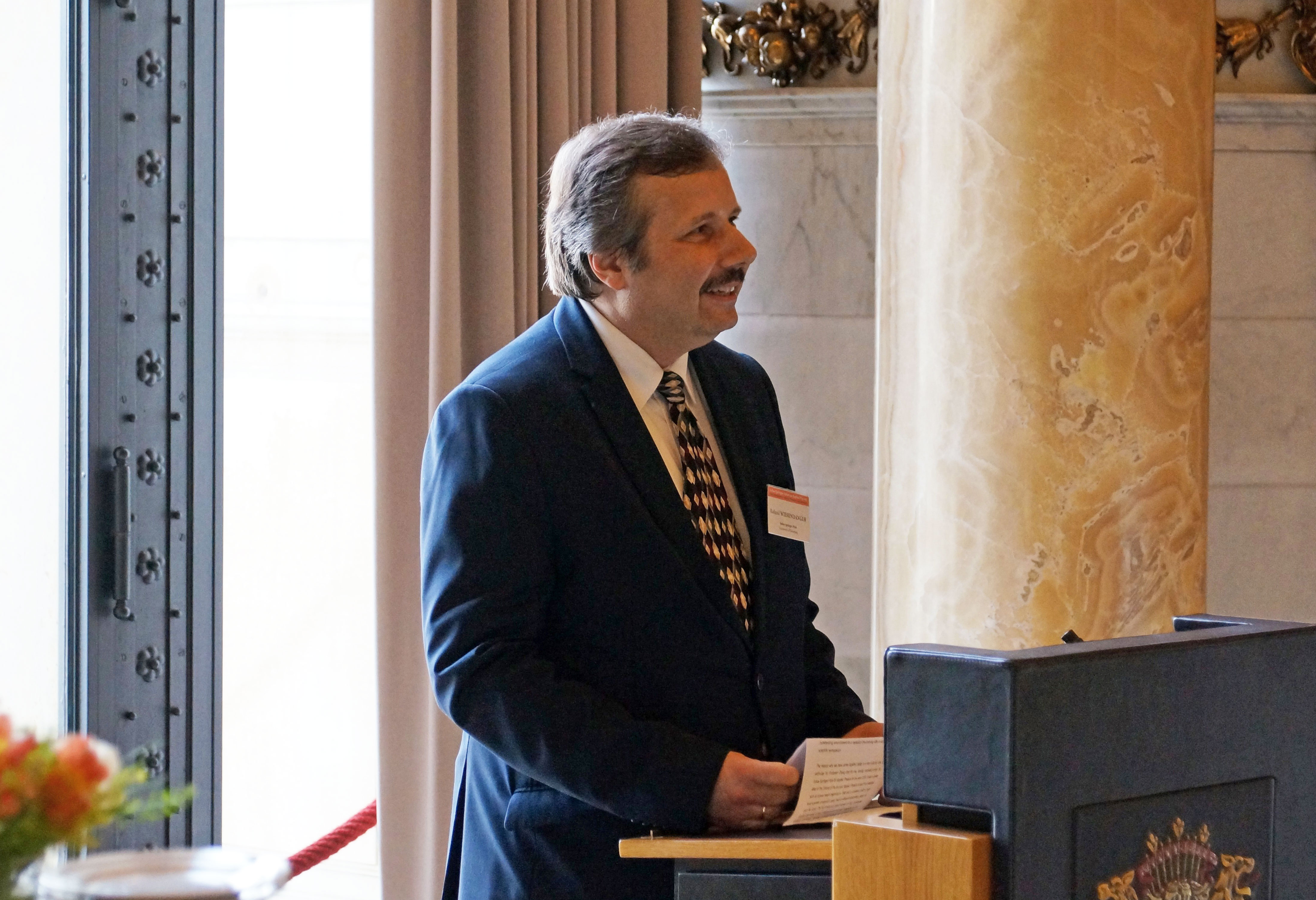 Prof. Dr. Roland Wiesendanger